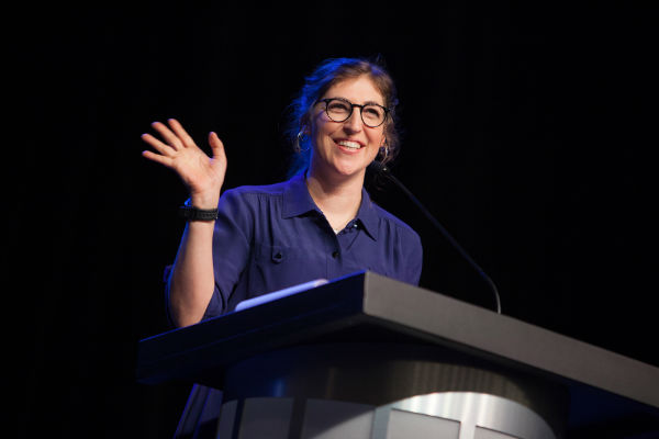 Mayim Bailik speaks at Sixth College on May 27, 2015